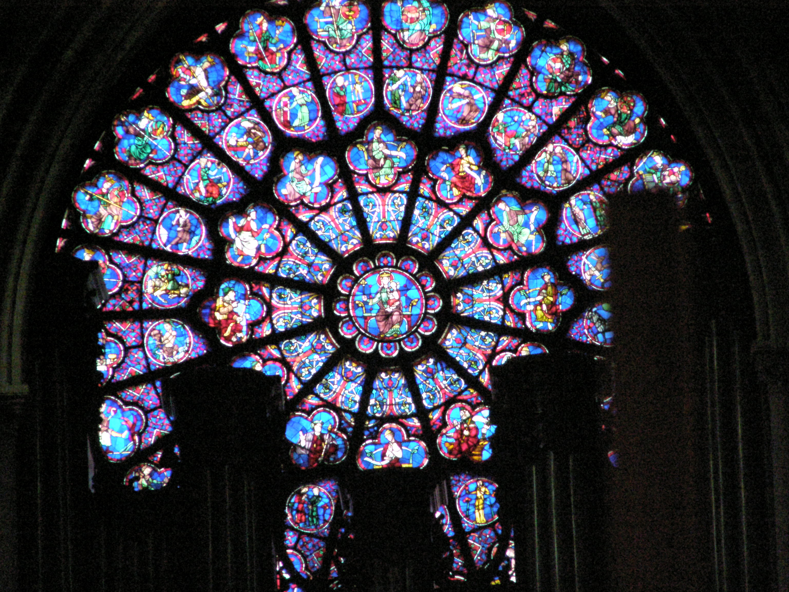 West rose window of the Cathédrale Notre-Dame de Paris